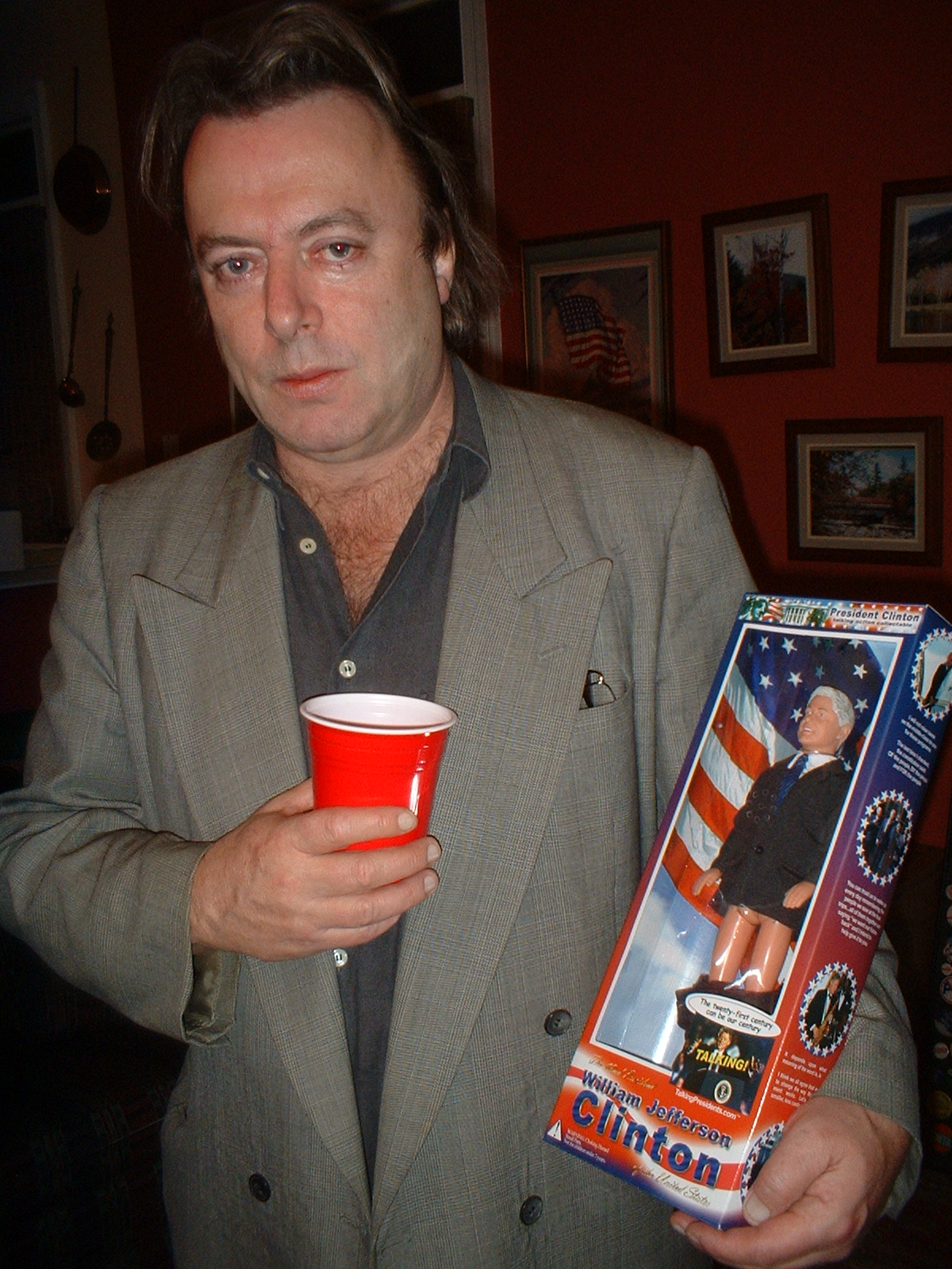 Christopher Hitchens at a party at the house of Grover Norquist following the CPAC convention in January 2004